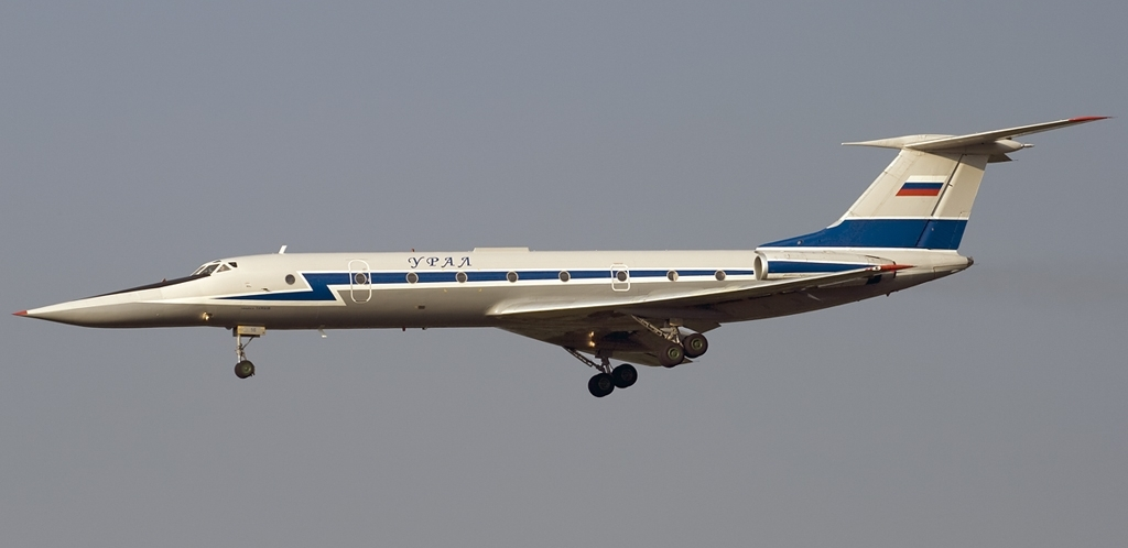 Tupolev Tu-134UBL in flight